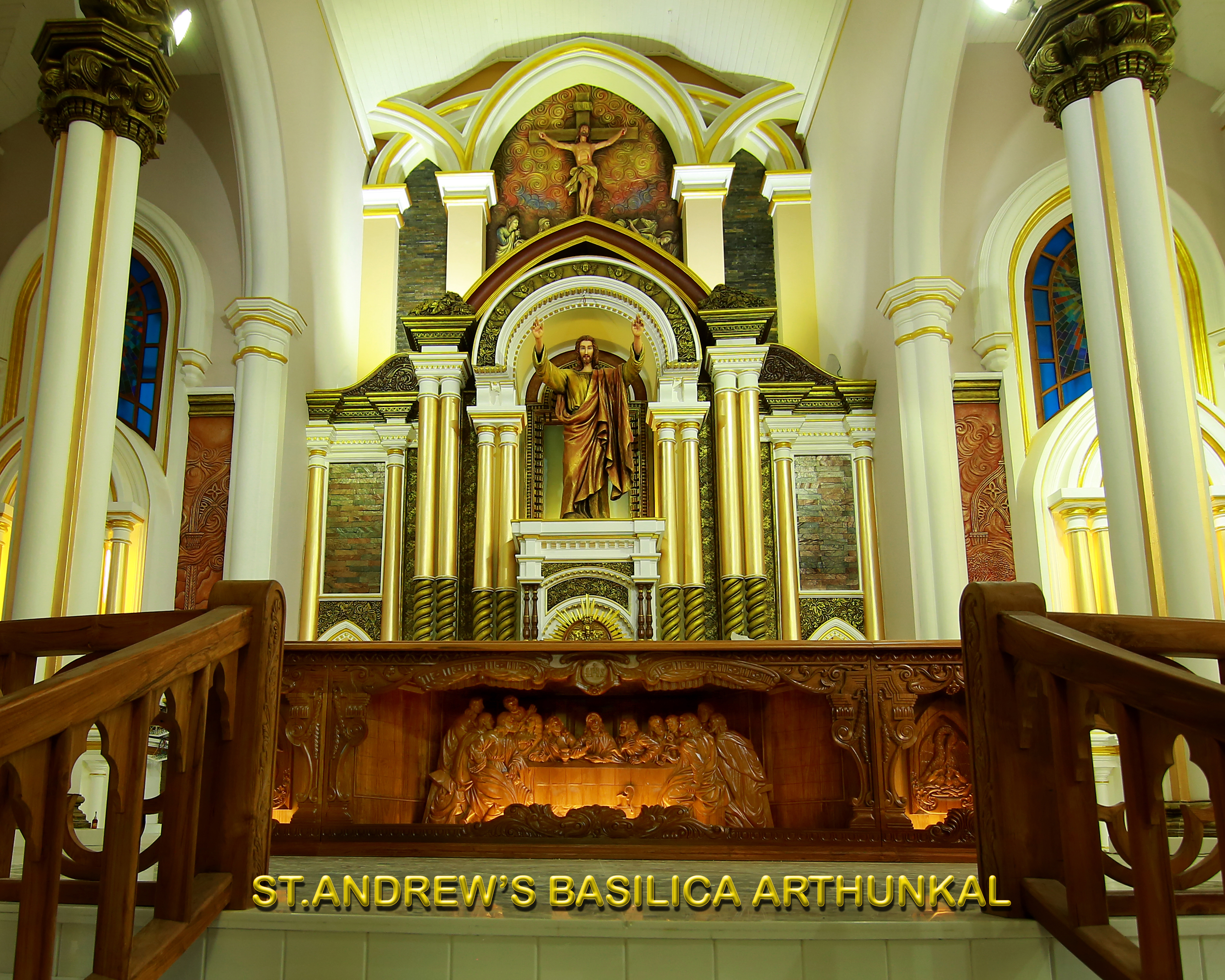 The Sanctuary of St. Andrew's Basilica Arthunkal, constructed under the guidance of Rev. Fr. Christopher M Arthasseril